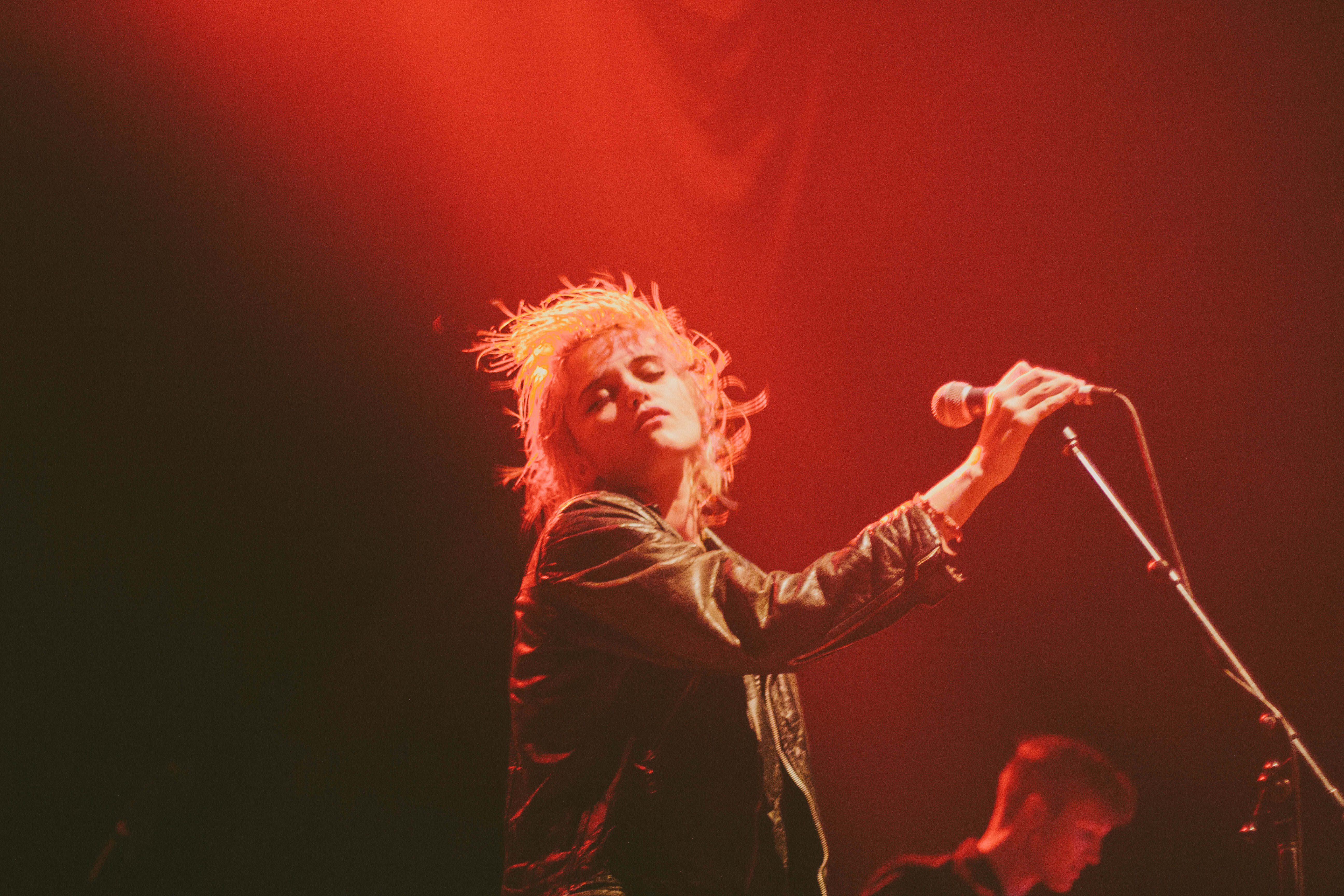 Sky Ferreira performing at the Pageant on September 24, 2013.